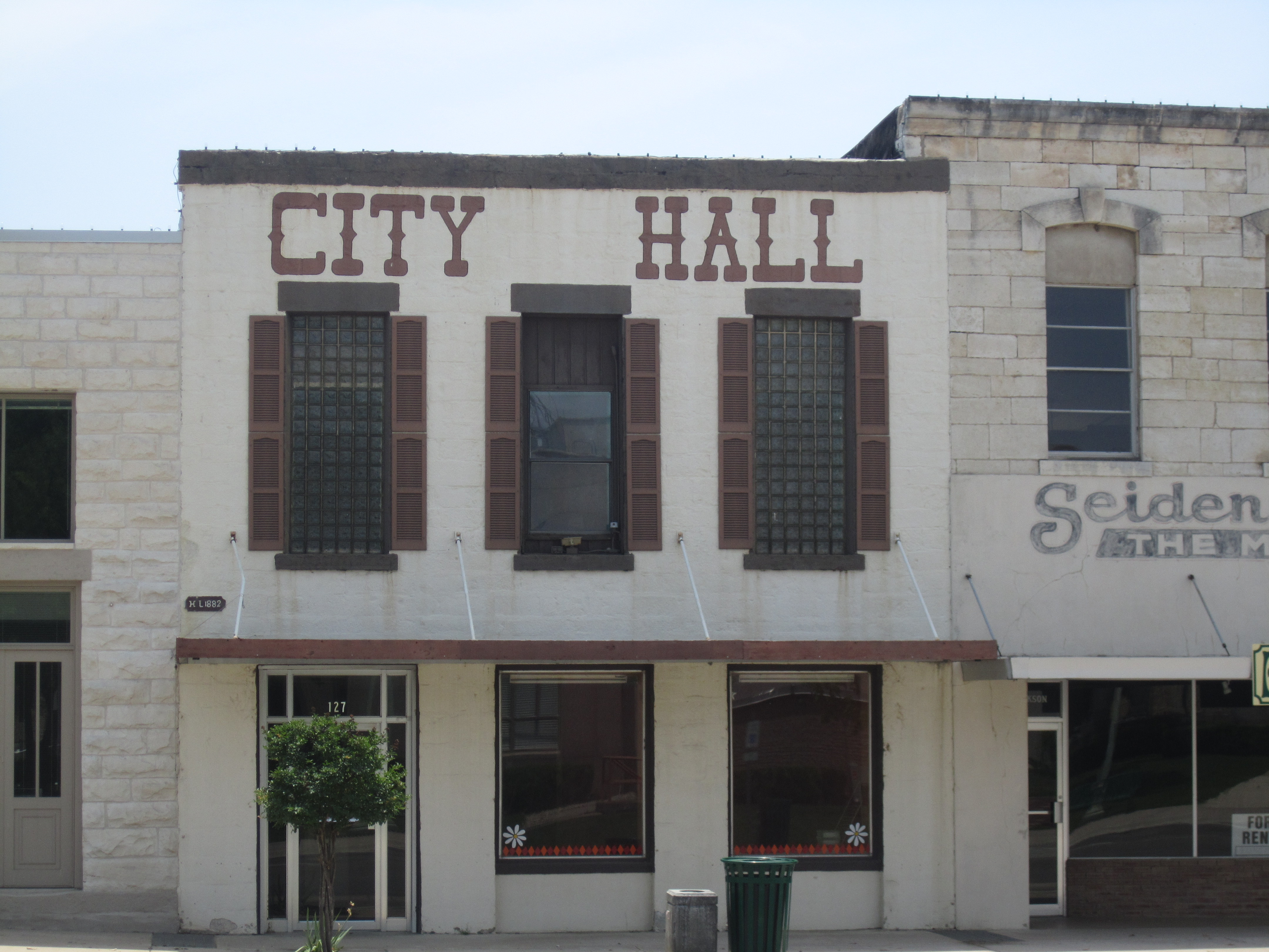 I took photo with Canon camera in Burnet, TX.